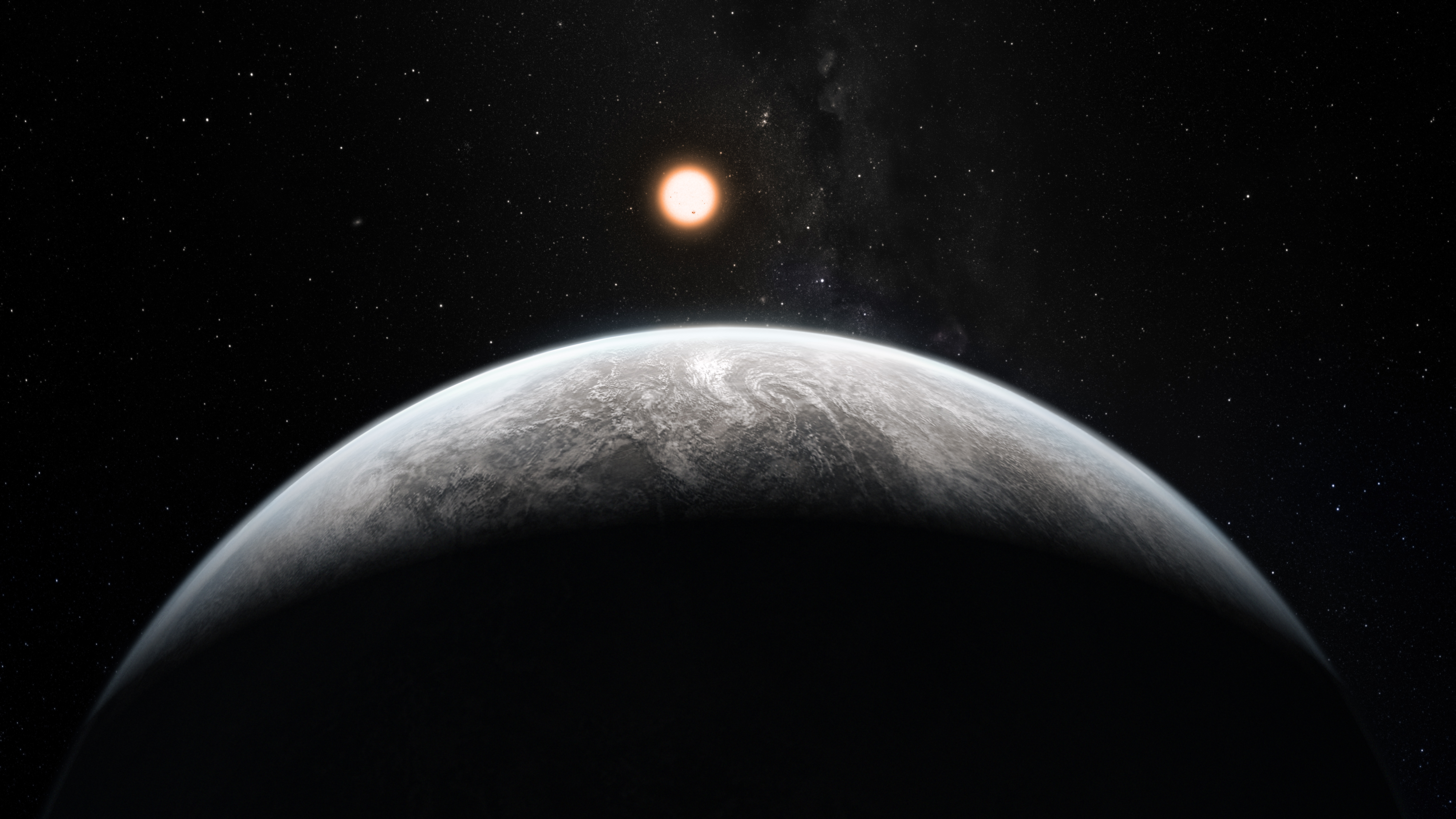 This artist’s impression shows the planet orbiting the Sun-like star HD 85512 in the southern constellation of Vela (The Sail). This planet is one of sixteen super-Earths discovered by the HARPS instrument on the 3.6-metre telescope at ESO’s La Silla Observatory. This planet is about 3.6 times as massive as the Earth lis at the edge of the habitable zone around the star, where liquid water, and perhaps even life, could potentially exist.